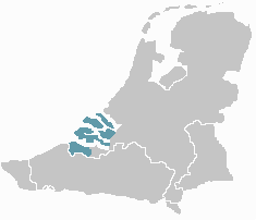 Map of the distribution of the dialect Zeelandic in the Low countries.